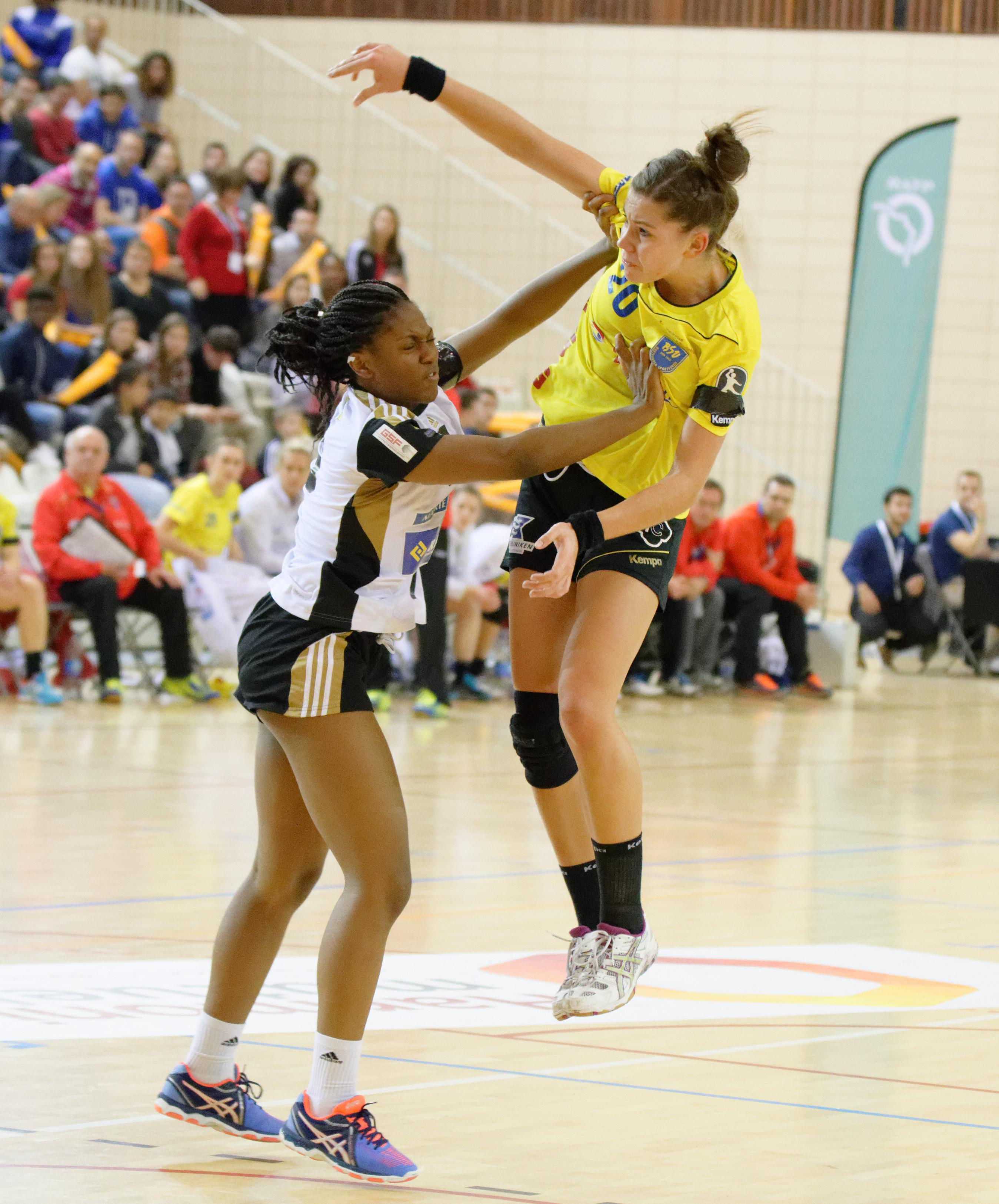 IPH-BSV-22NOV2015-037-Déborah_Lassource